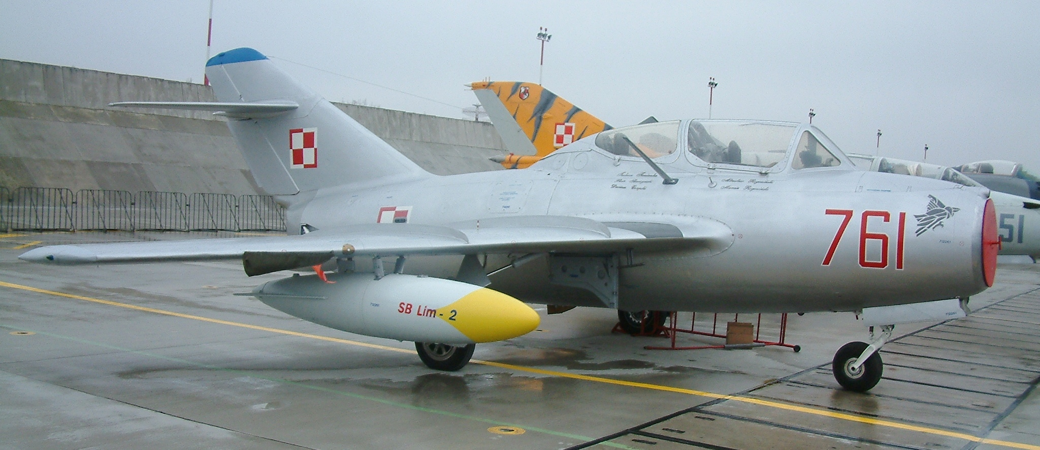 SB Lim-2 (MiG-15UTI) #761 of Polish Air Force, 31st Air Base, Poznań-Krzesiny